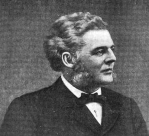 Hobart Baldwin Bigelow (Connecticut Governor)